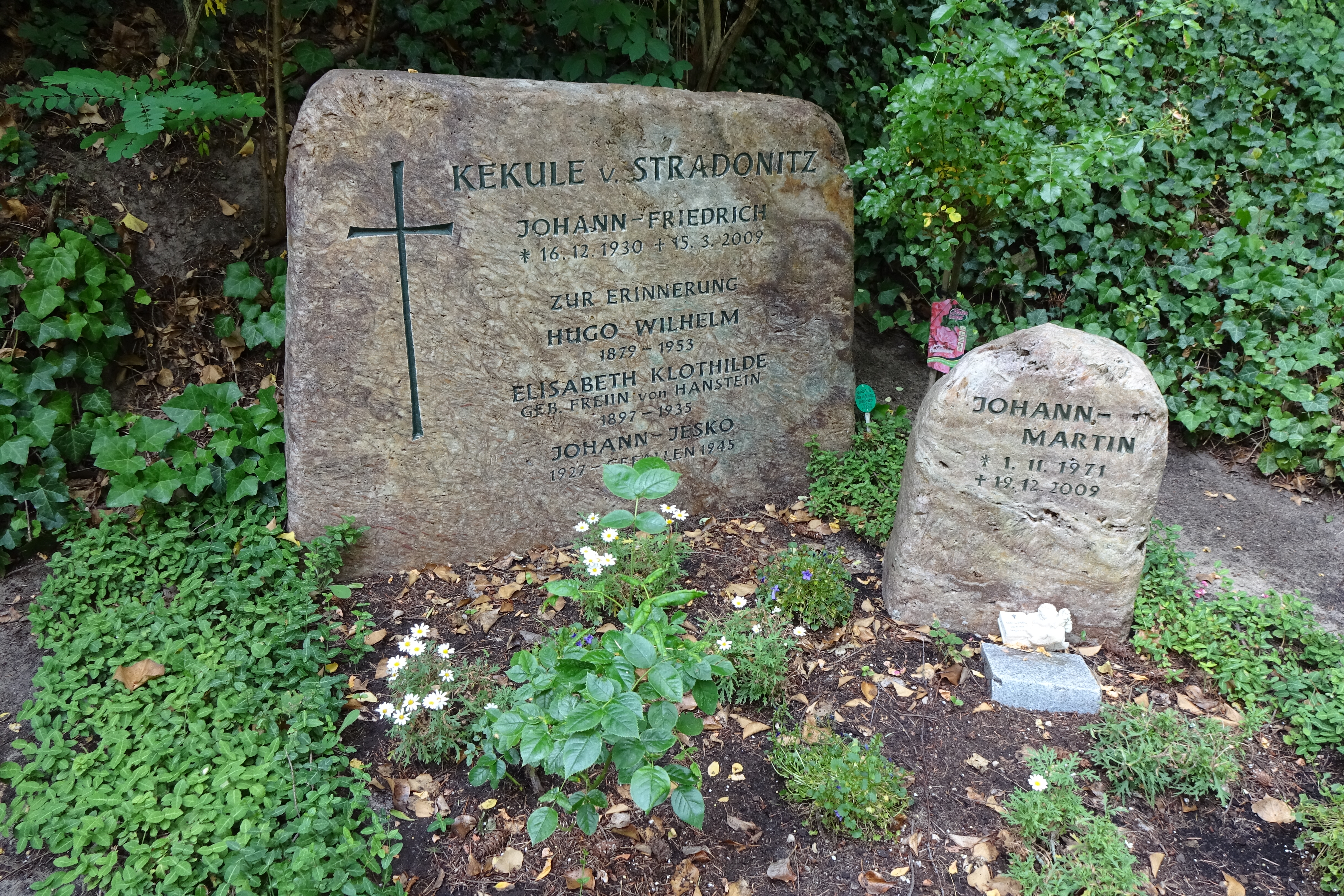 Grave of German politician Johann Friedrich Kekulé von Stradonitz at Friedhof Heerstraße in Berlin-Westend